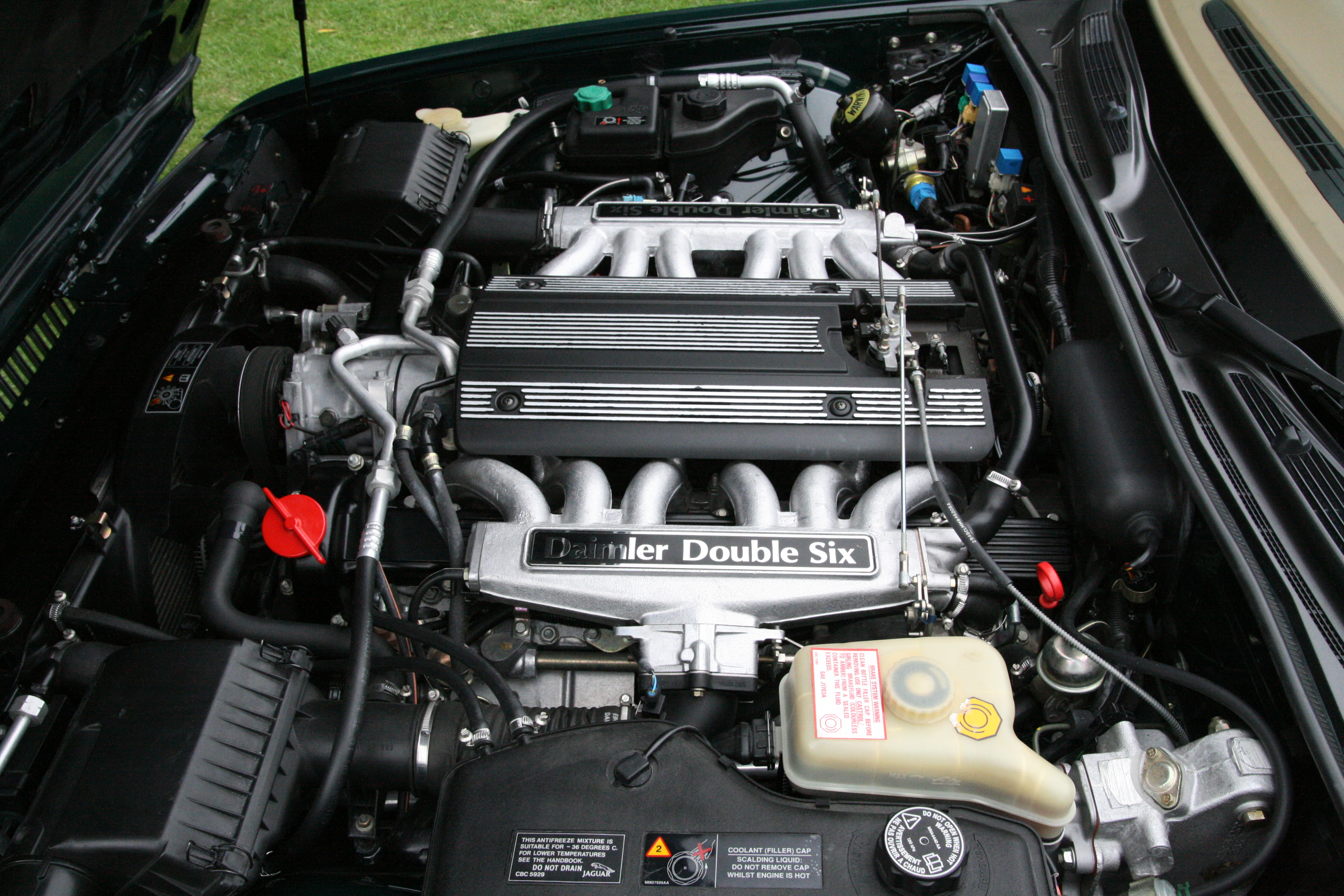 The 6.0 litre Jaguar V12 engine found in a 1994 Daimler Double Six (XJ40), parked at the 2008 Nostalgia Festival auto show in Ronneby, Sweden.